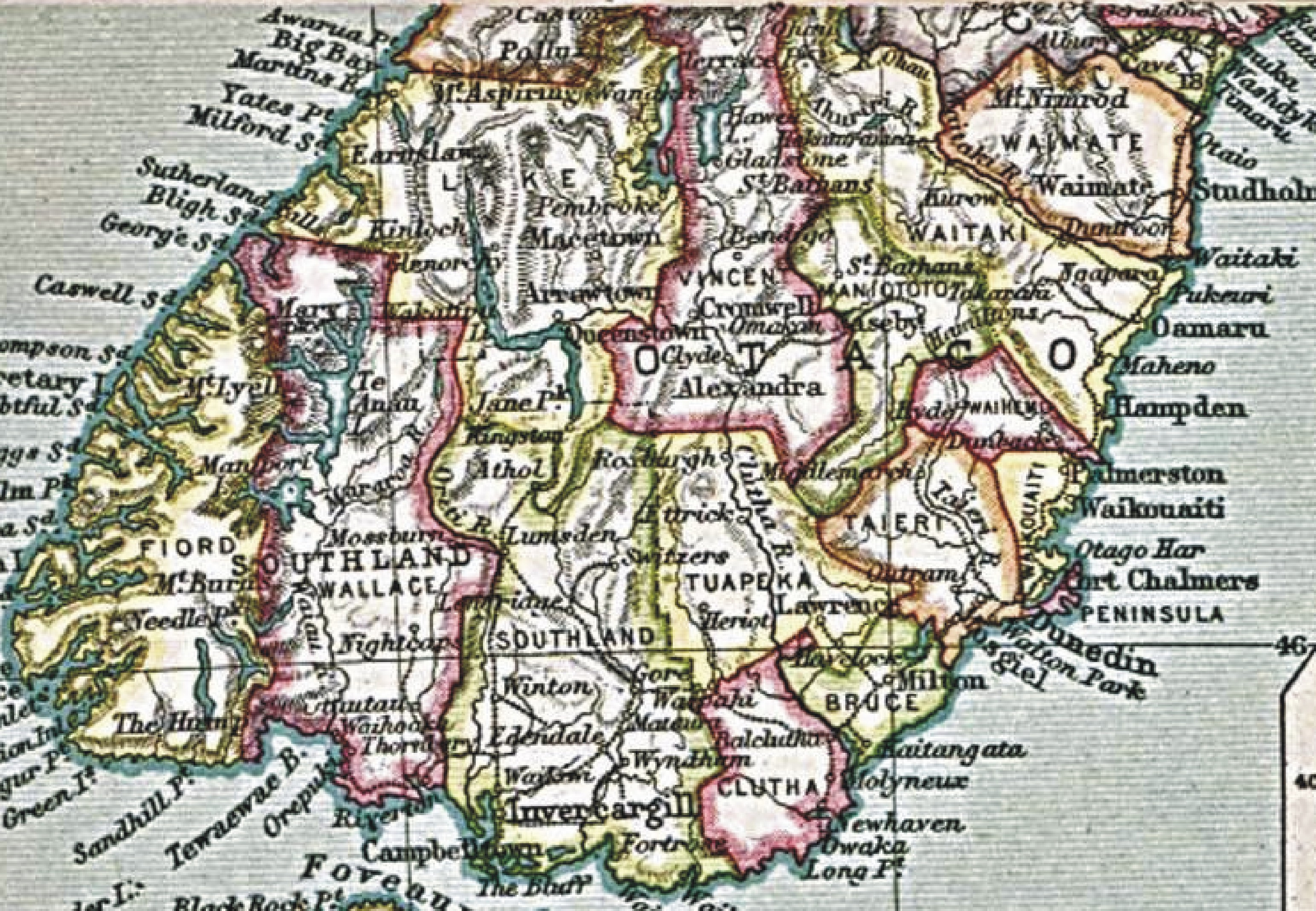 Map showing counties in New Zealand, 1913